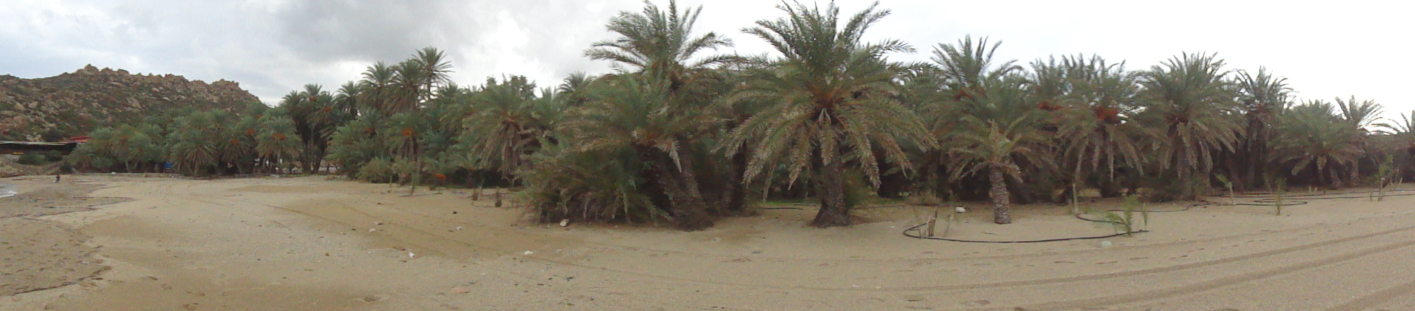 Palmeral de Vai